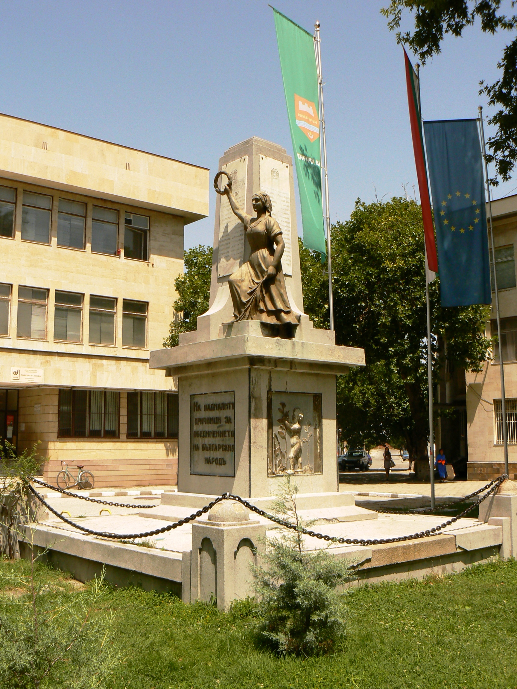 The war memorial in the centre of Krichim, Bulgaria.